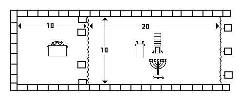 This is a diagram of the Biblical tabernacle of the Jews.